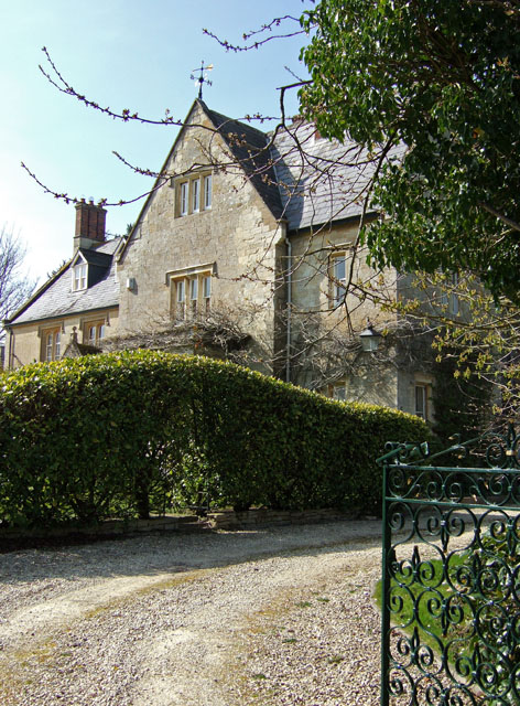 Nash Court - Marnhull in Dorset - home of the Husseys.